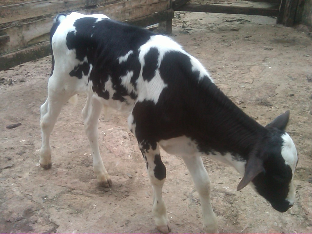 A calf in the farm of Andrelândia, Minas Gerais, Brazil.